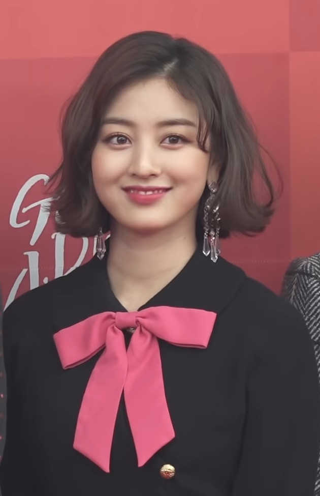 Jihyo at the Golden Disc Awards 2019 in Seoul.